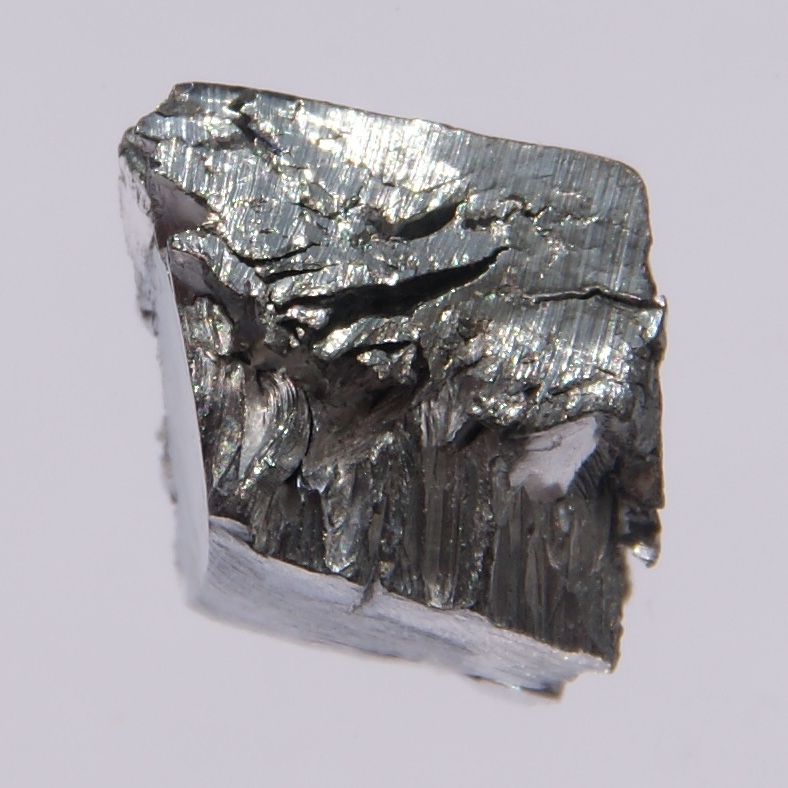 1 cm big piece of pure lutetium.